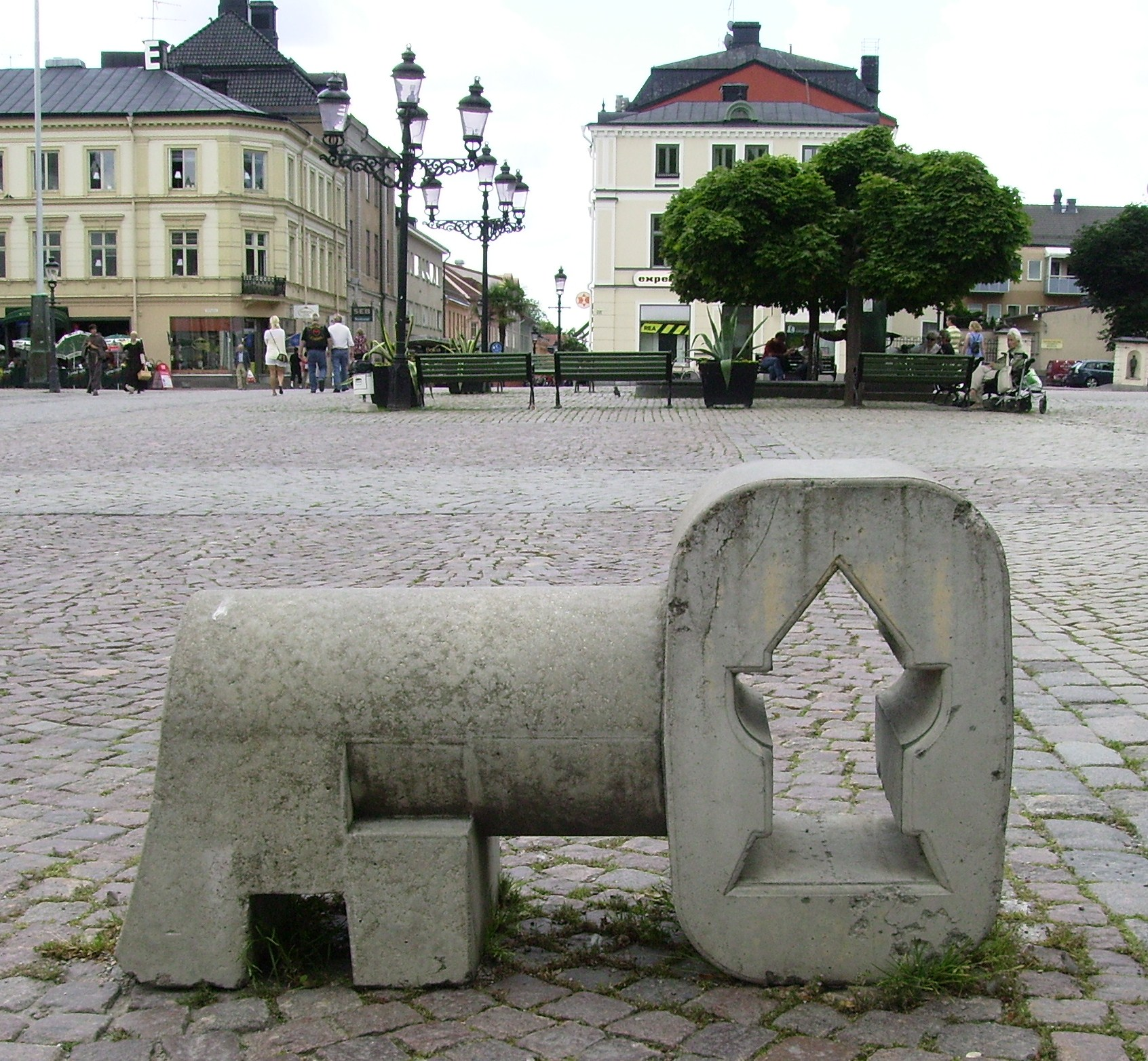 Picture of Gästabudsnyckeln at Stora torget, symbol of Nyköping